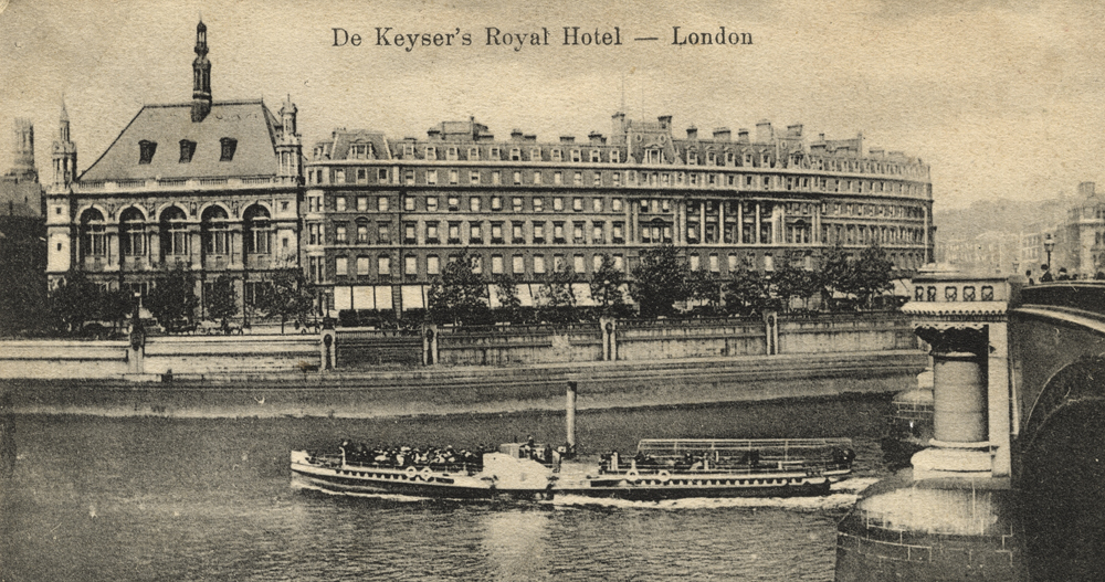 A photo postcard of De Keyser's Royal Hotel, Victoria Embankment, London, circa 1900.